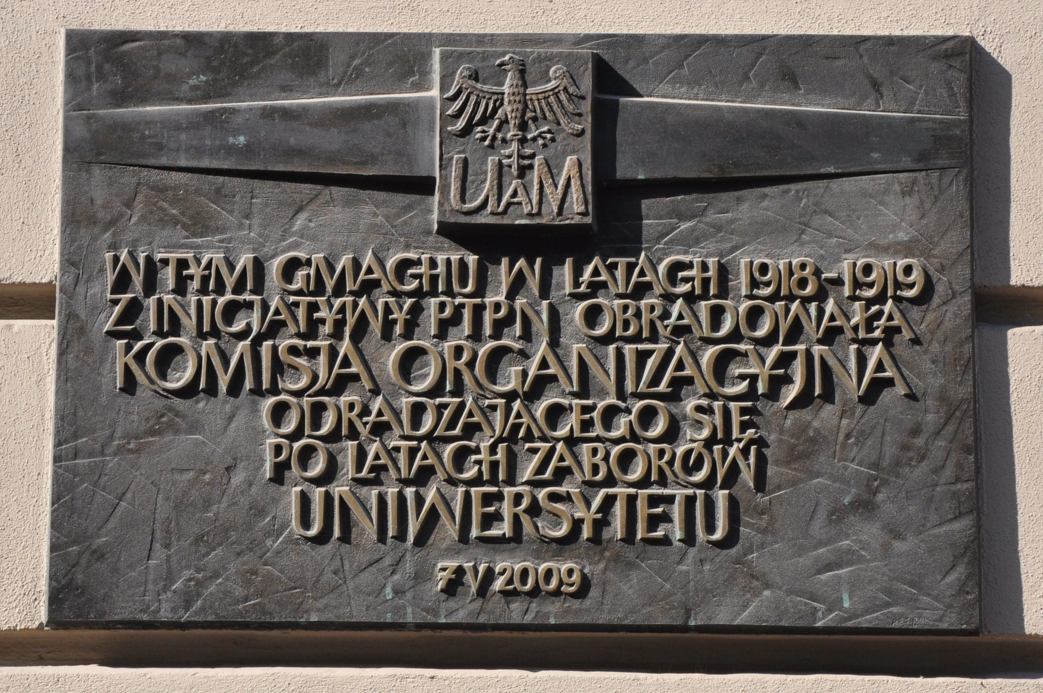 UAM-plaque in PTPN-building, Poznań.